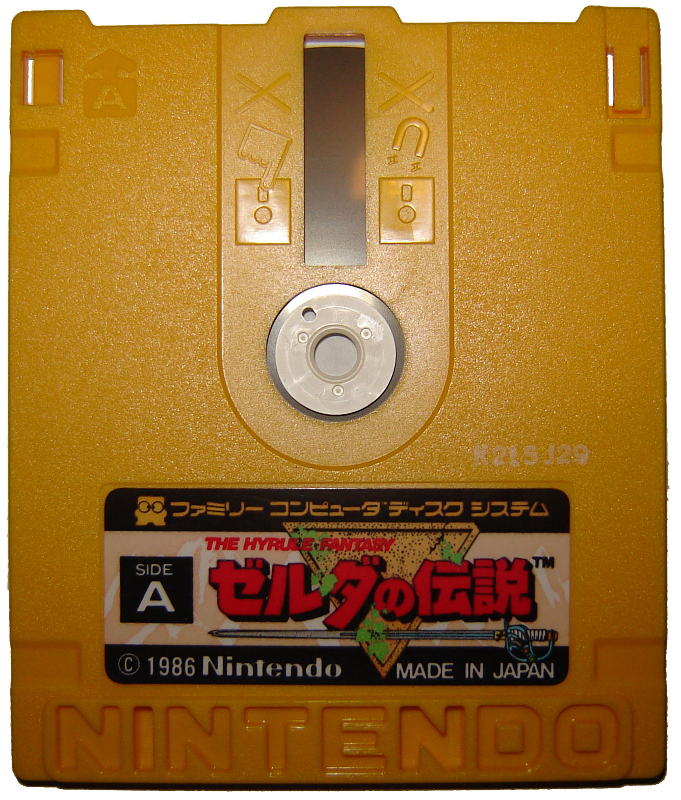 This is the original yellow version of the game for the Famicom Disk System. These disks did not have dust covers.